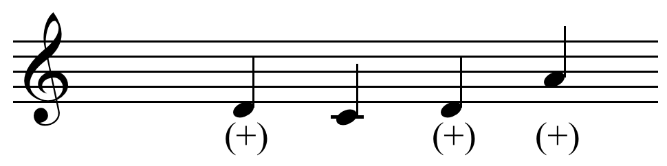 A short melody in slendro approximated using Western notation.